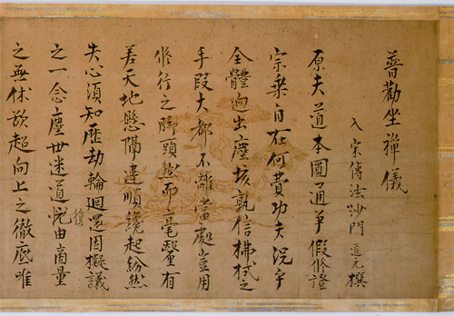 Universally Recommended Instructions for Zazen (普勧坐禅儀, fukan zazengi)